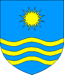 Old coat of arms of Võsu Parish (1998–1999).